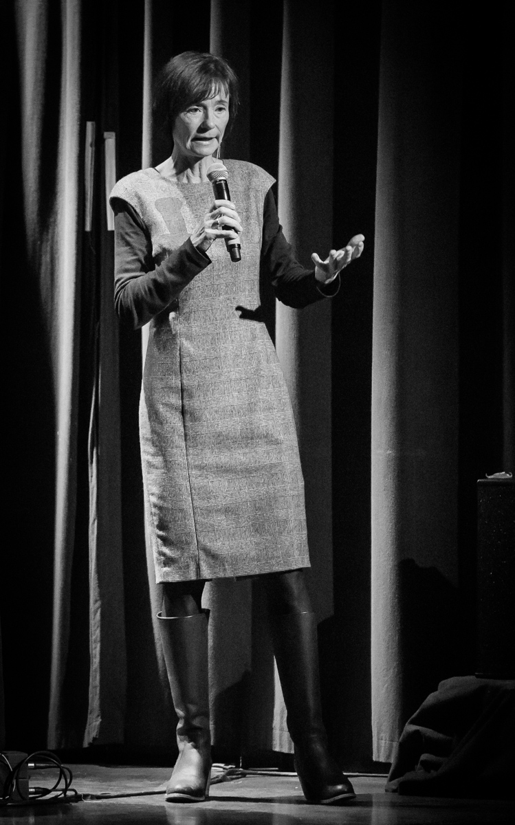 Hege Storhaug in a debate at Cosmopolite in Oslo in 2015.